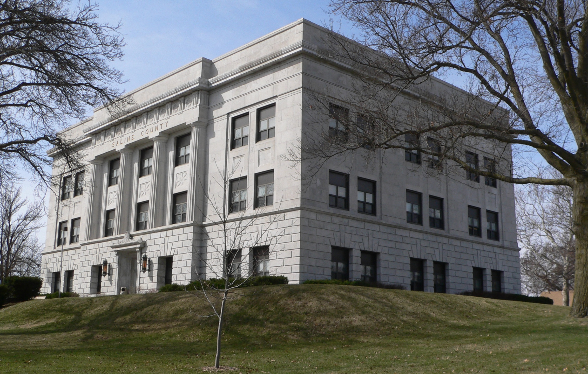 Saline County Courthouse in Wilber, Nebraska; seen from the northeast. The Classical Revival building was constructed in 1928, and is listed in the National Register of Historic Places.